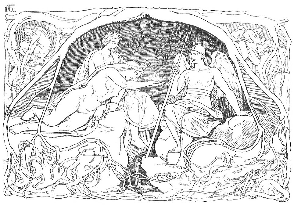 The norns Urðr, Verðandi, and Skuld at the well Urðarbrunnr. The serpent Níðhöggr presumably gnaws at the roots of the tree Yggdrasil below. No caption or title provided in work.